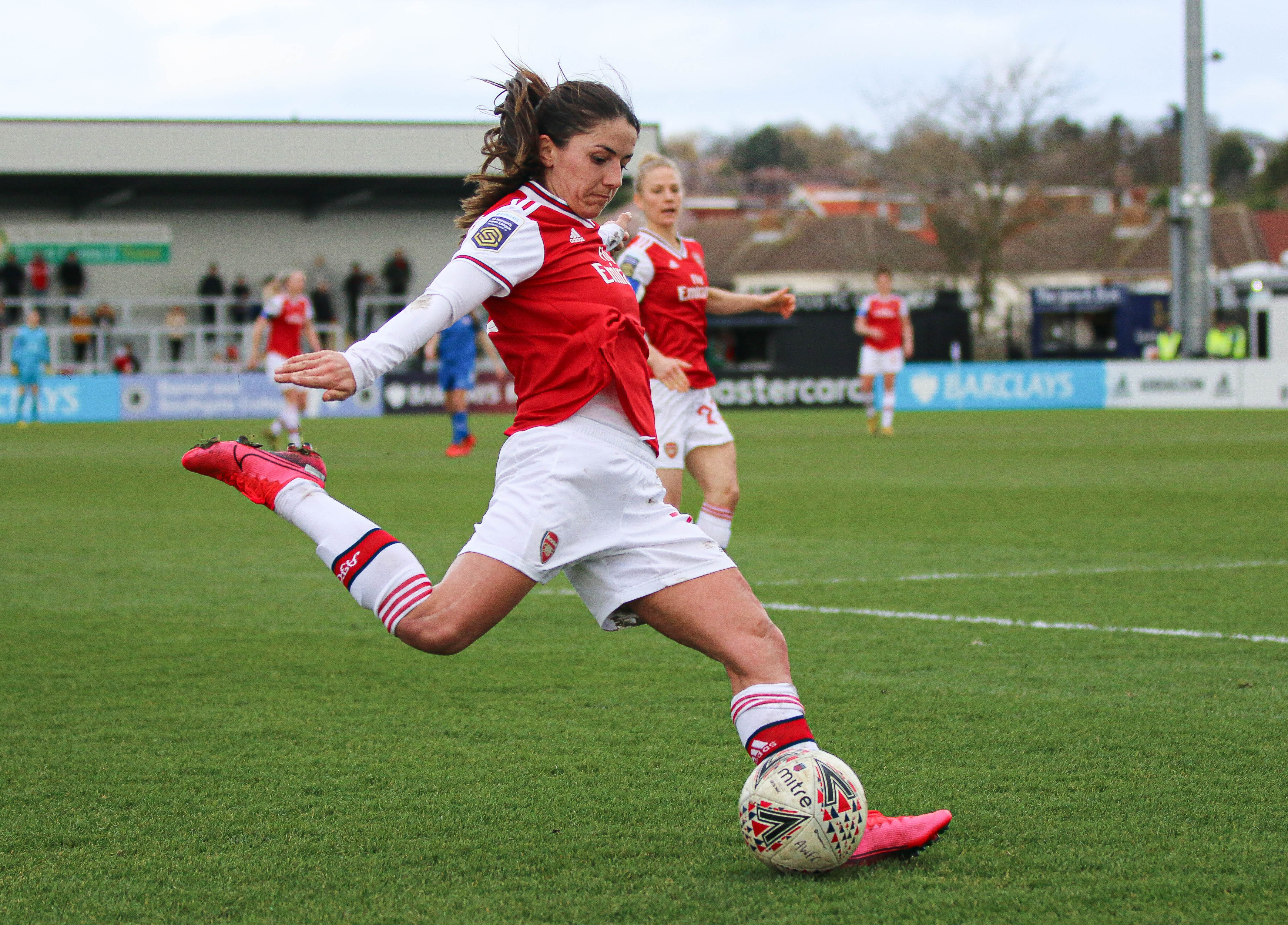 Arsenal WFC – Lewes L.F.C., 23 February 2020